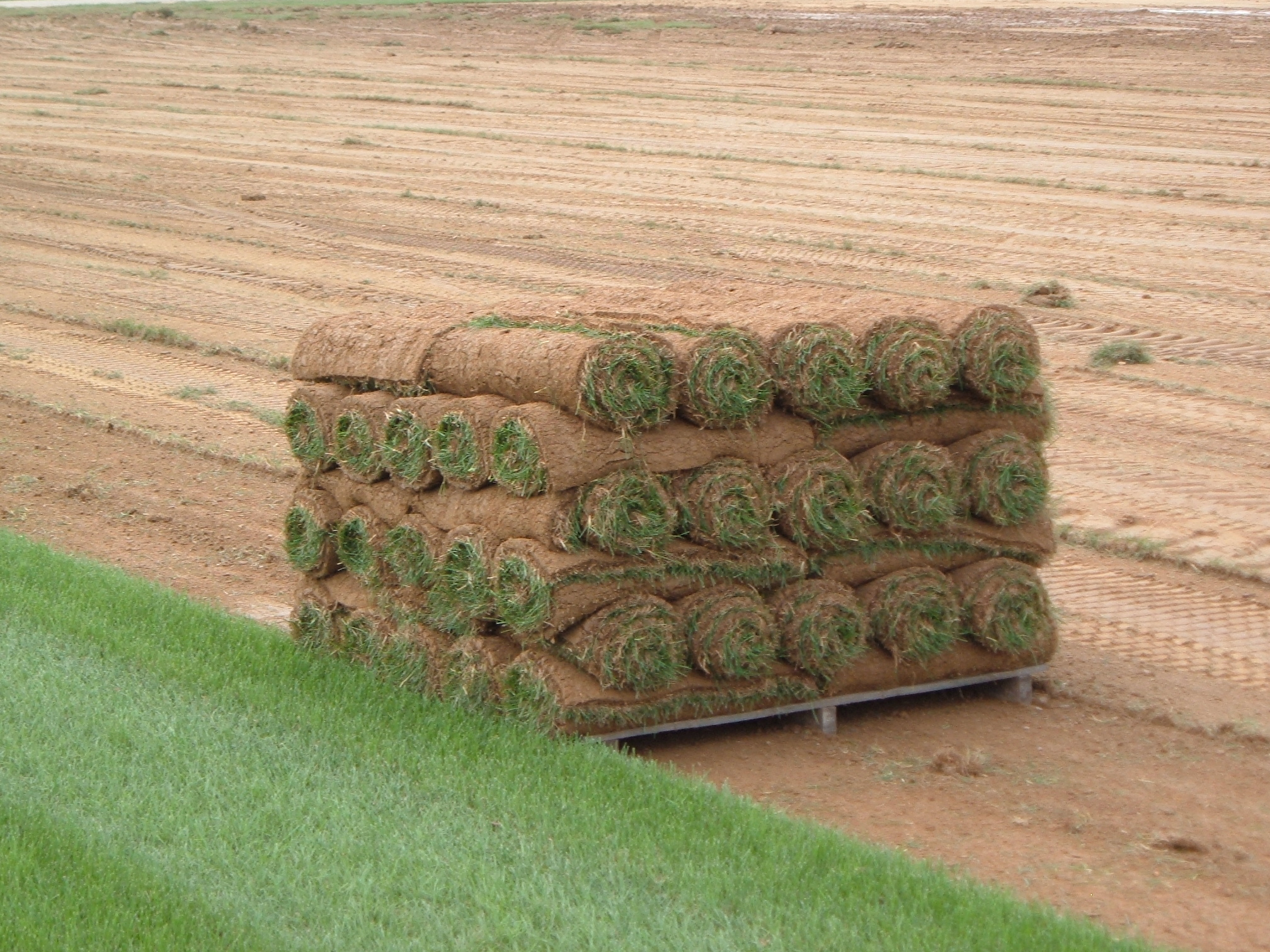 Rolled sod on a sod farm field